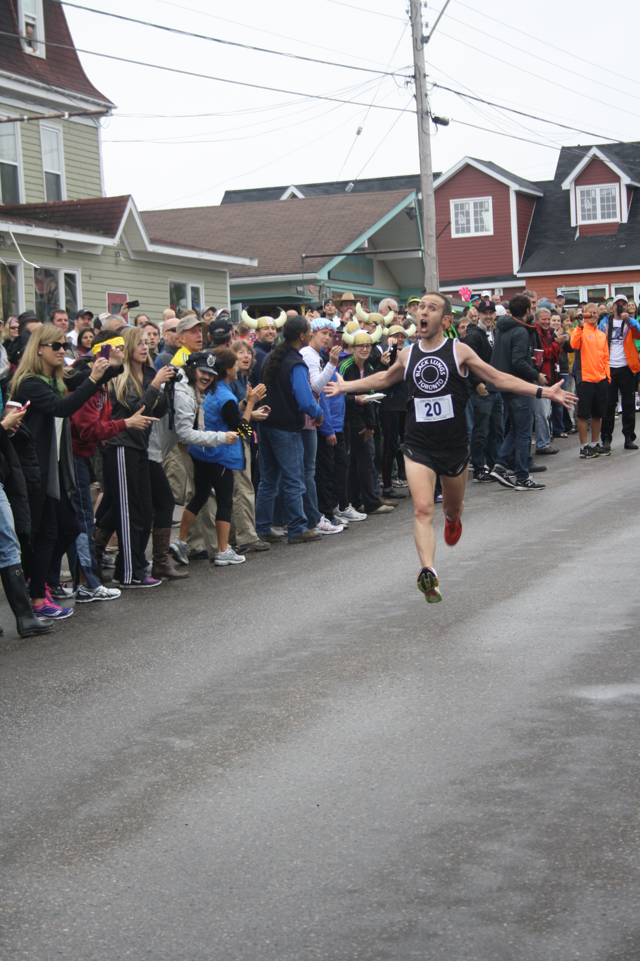 A runner for the Black Lungs team approaches the finish line on the final leg of the Cabot Trail Relay Race.